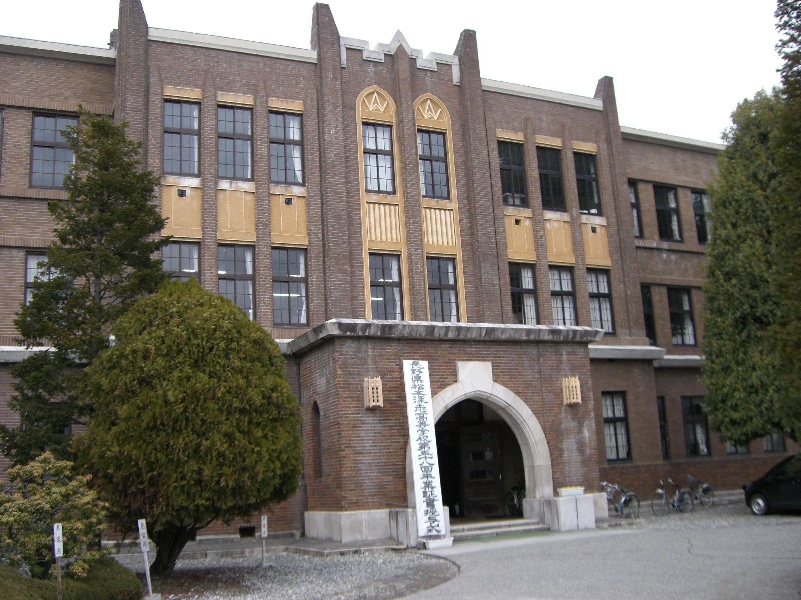 Description: The No.1 building of Fukashi High School in Matsumoto city（Nagano-Pref.,JAPAN) Source: tgmsito's file Date: 16:46, 6 March 2006 (UTC) Author: tgmsito(The same as uproader) Permission: GFDL,cc-by-sa-2.5,2.0,1.0 Other versions of this file: Nothing